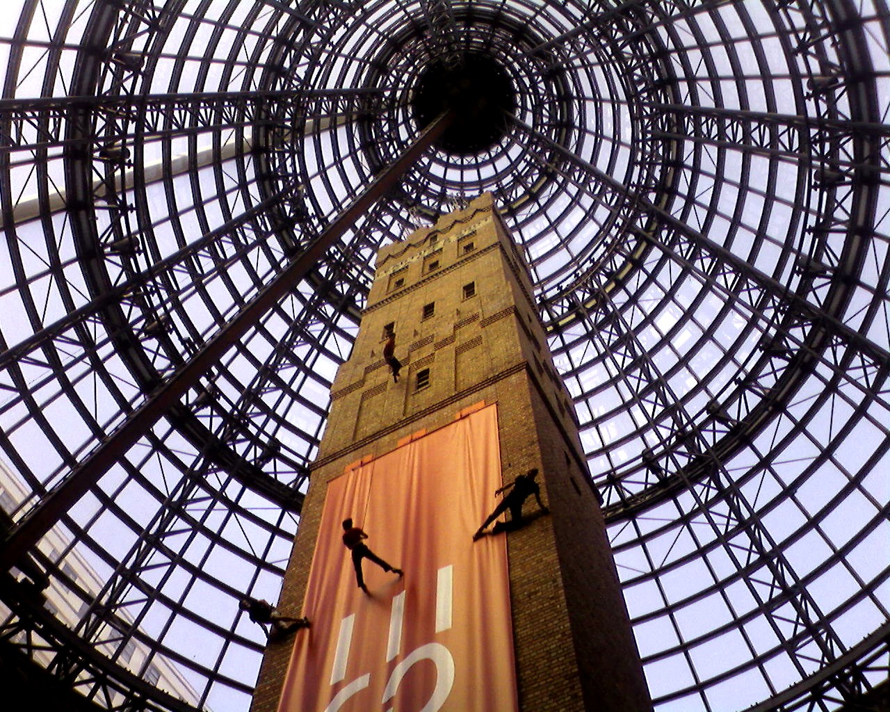 Four people abseiling down the shot tower at Melbourne Central Shopping Centre.